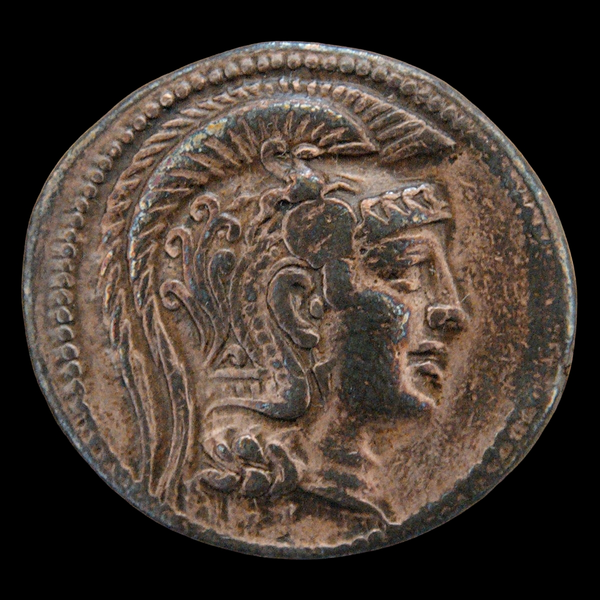 Head of Athena with a crested helmet. Silver tetradrachm from Athens, "new style" (ca. 200-150 BC), obverse.